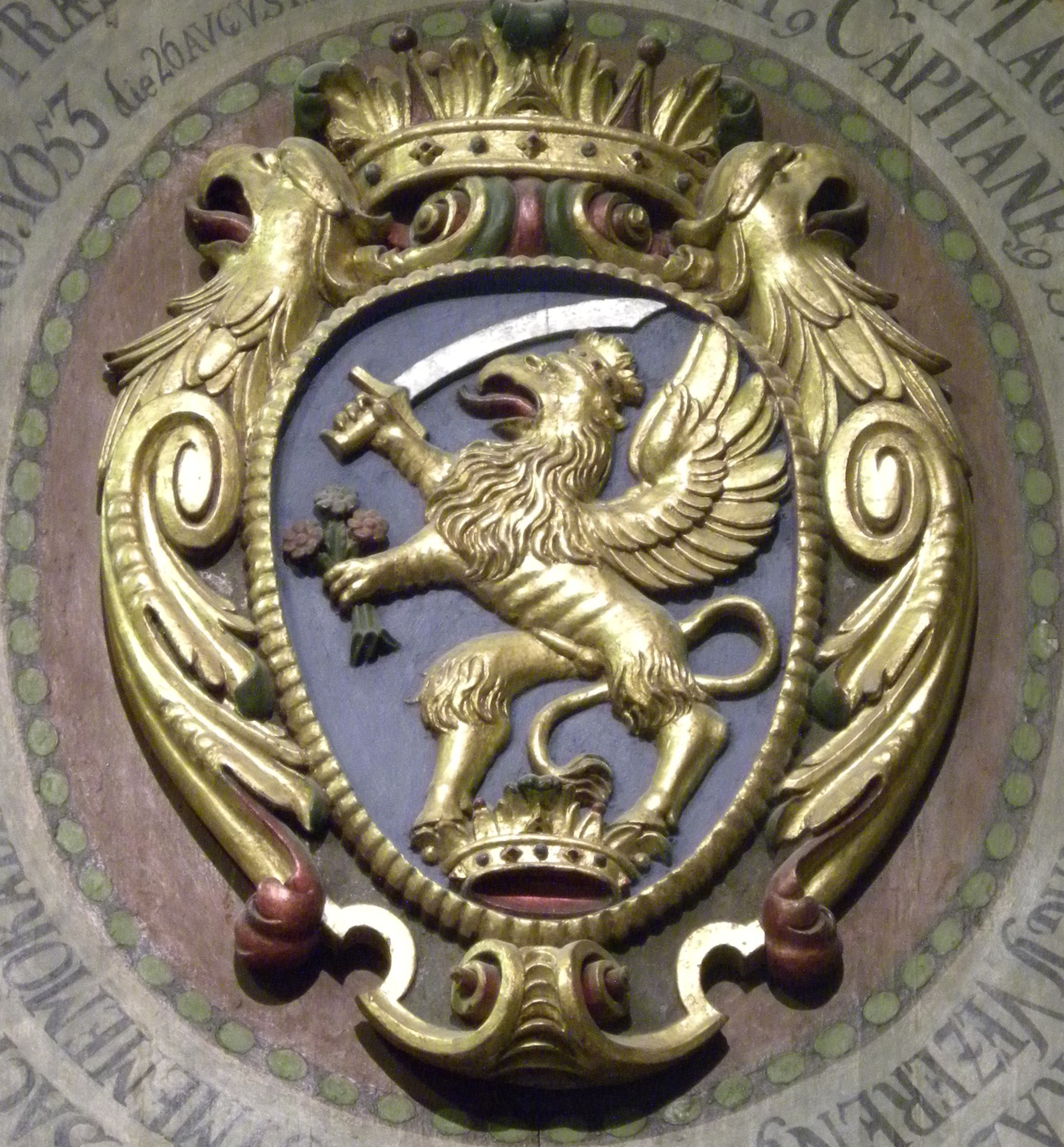 Coat of arms of Ferenc Esterházy. St. John the Baptist Cathedral, Trnava. Funeral shield in presbytery.